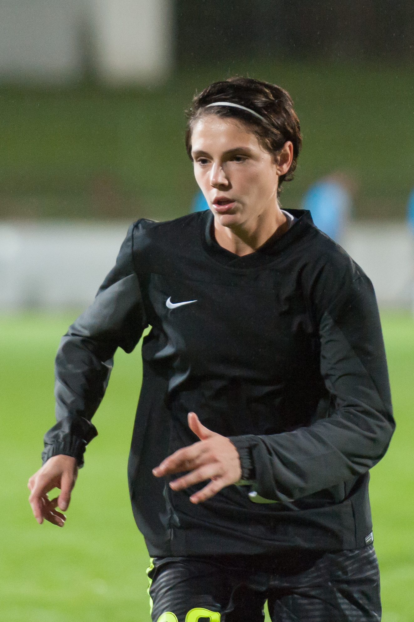 UEFA Women's Champions League FSK St. Pölten-Spratzern vs ASF CF Verona, St. Pölten, 2015-10-07